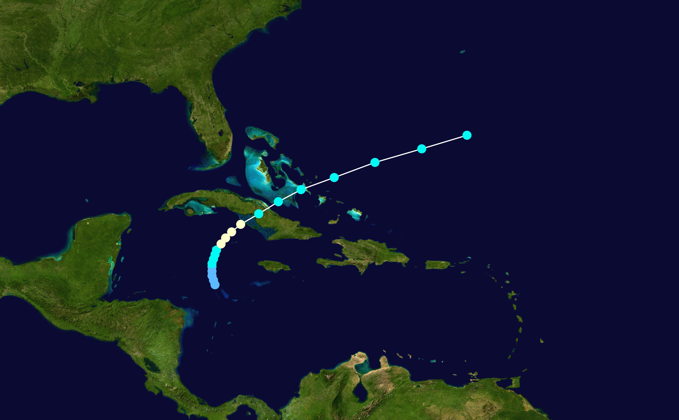 Hurricane Katrina (1981) track. Uses the color scheme from the Saffir-Simpson Hurricane Scale.